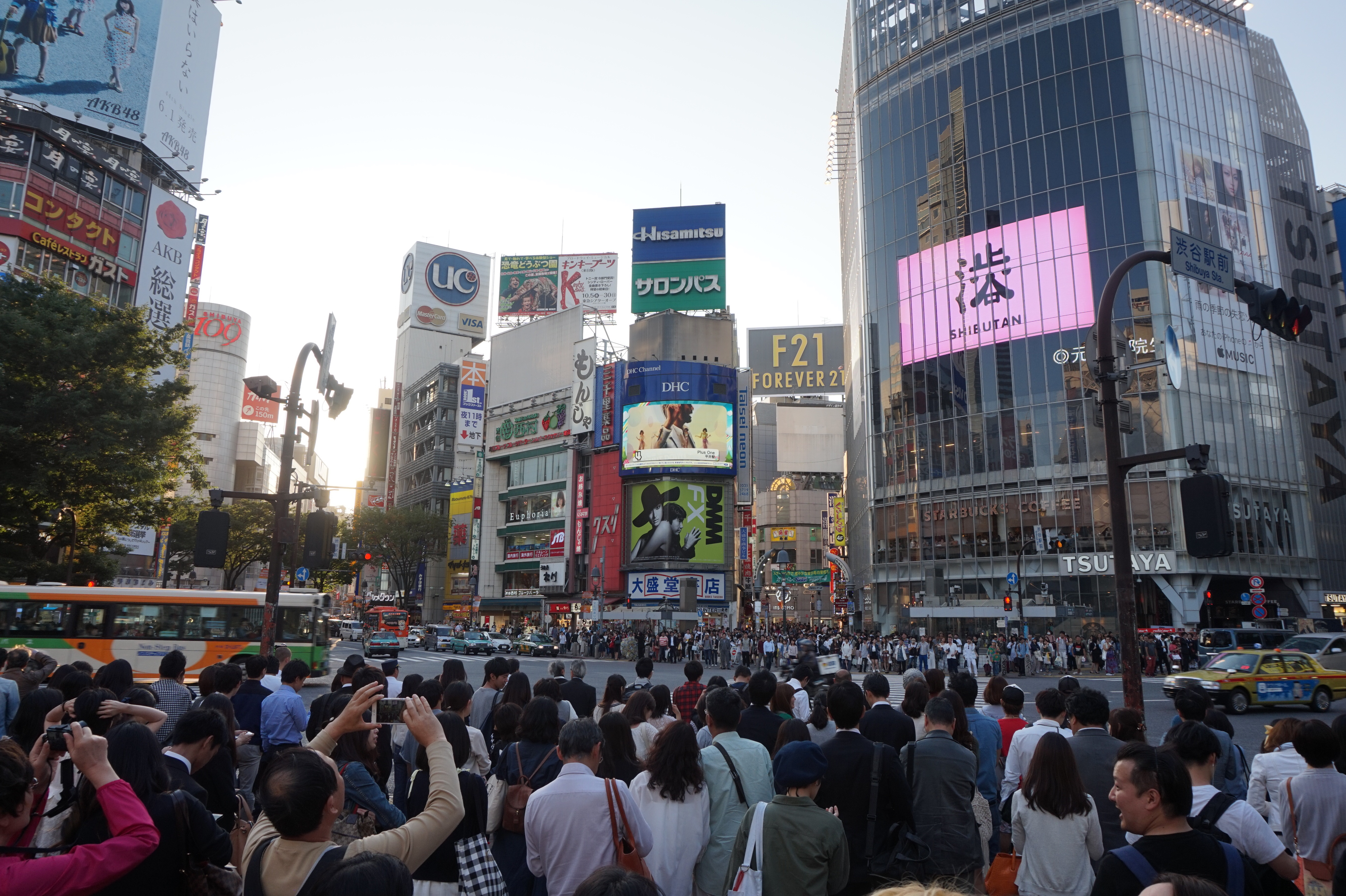 The world's busiest pedestrian crossing. View from outside the train station.